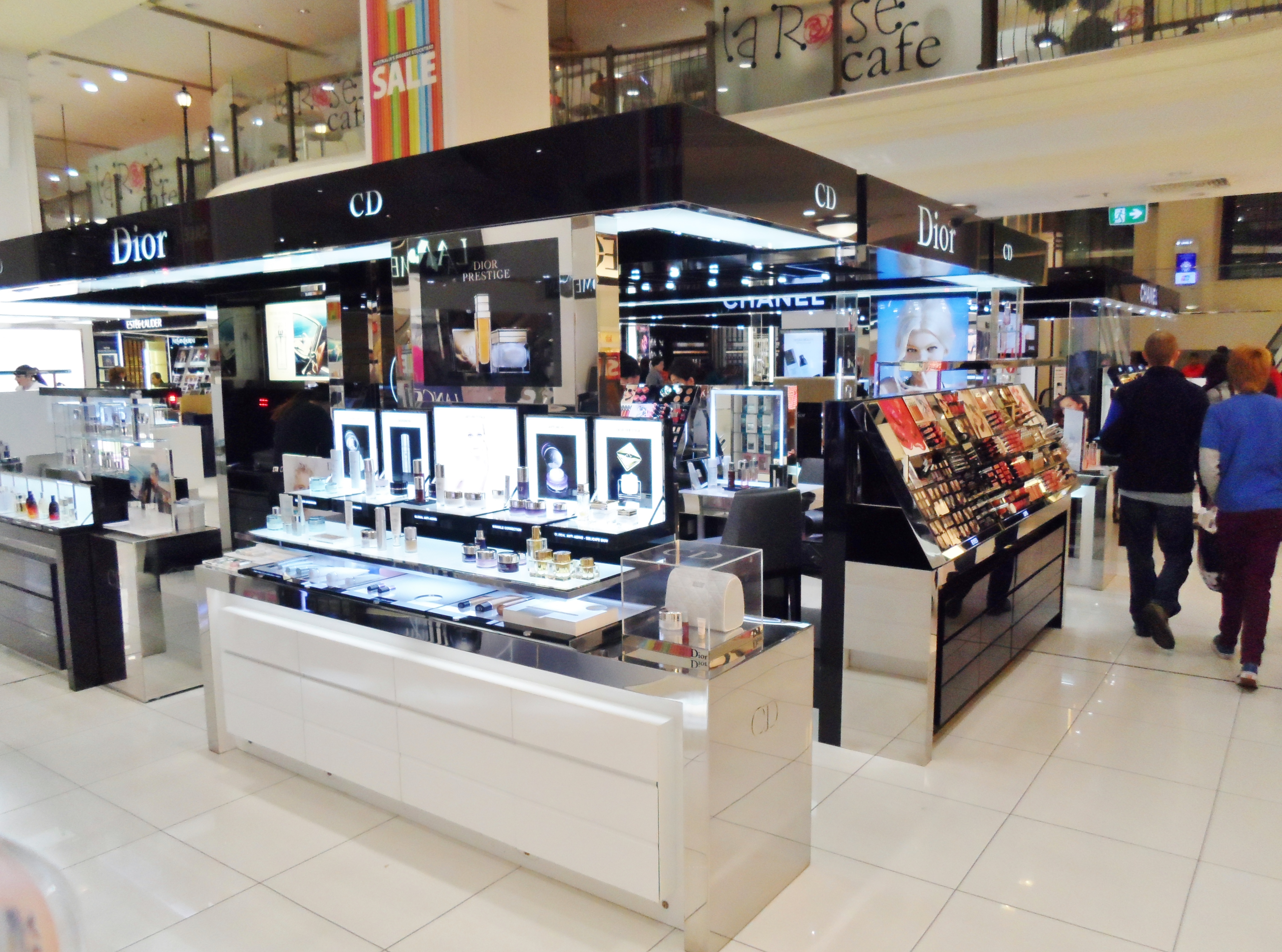 Cosmetics counter of French luxury brand Dior at Sydney City branch of Australian department store MYER in 2013. Domingo Torres Posse -President Directeur General